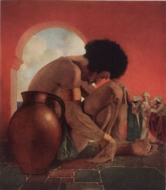 Title: The Arabian Nights Their Best-known Tales Author: Unknown Editor: Kate Douglas Wiggin Nora A. Smith Illustrator: Maxfield Parrish